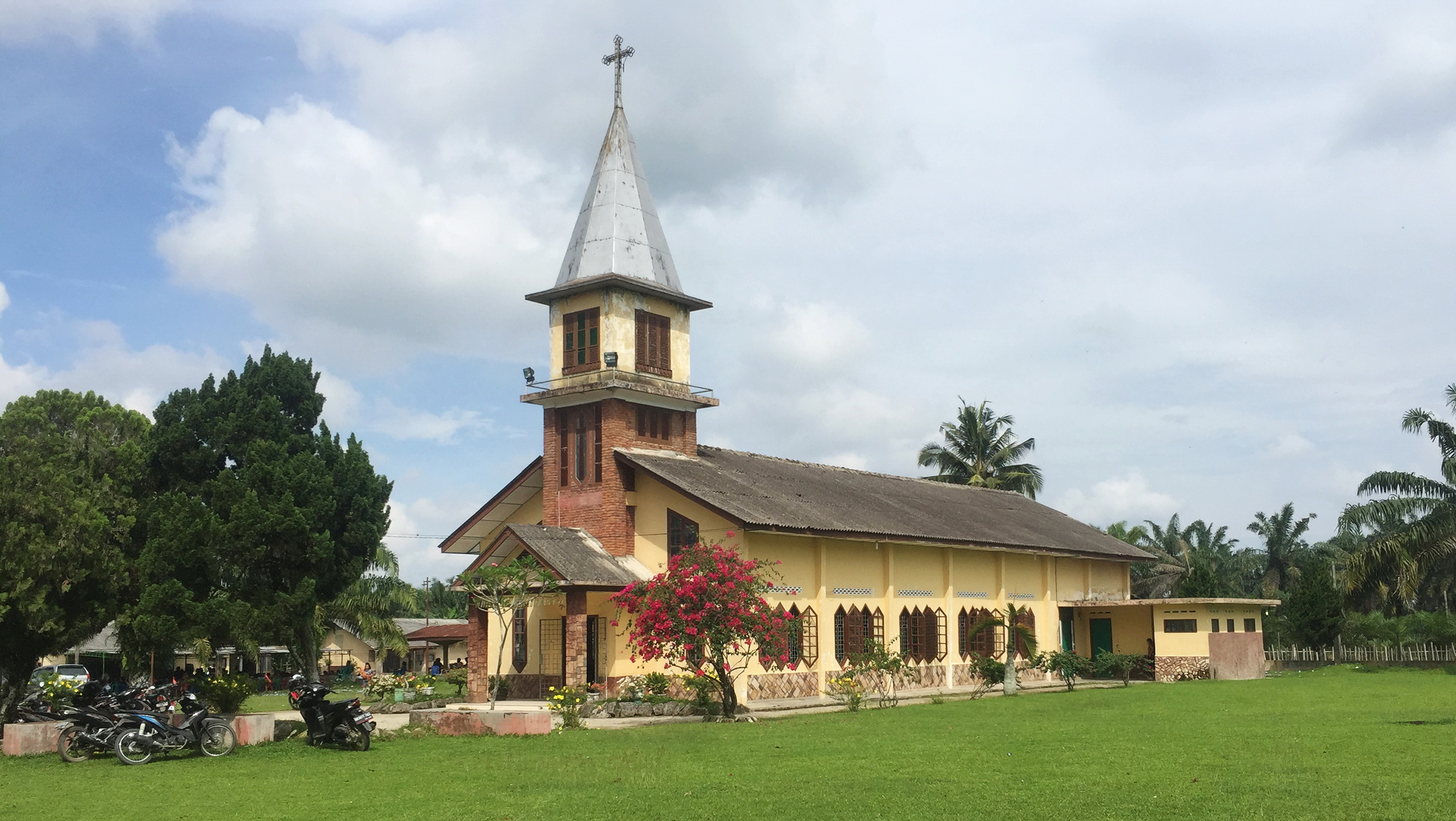 HKBP Bah Jambi, Church in Bah Jambi, Bah Jambi, Simalungun